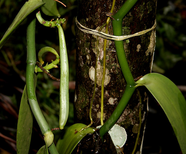 Flat-leaved Vanilla, Tahitian Vanilla or West Indian Vanilla Vanilla planifolia Jacks. ex Andrews (syn. Vanilla fragrans Ames; Notylia planifolia (Jacks. ex Andrews) Conz.; Vanilla viridiflora Blume; Vanilla pompona Schiede; Notylia pompona (Schiede) Conz.; Vanilla sativa Schiede; Notylia sativa (Schiede) Conz.; Vanilla rubra (Lam.) Urb.) in Goa, India.